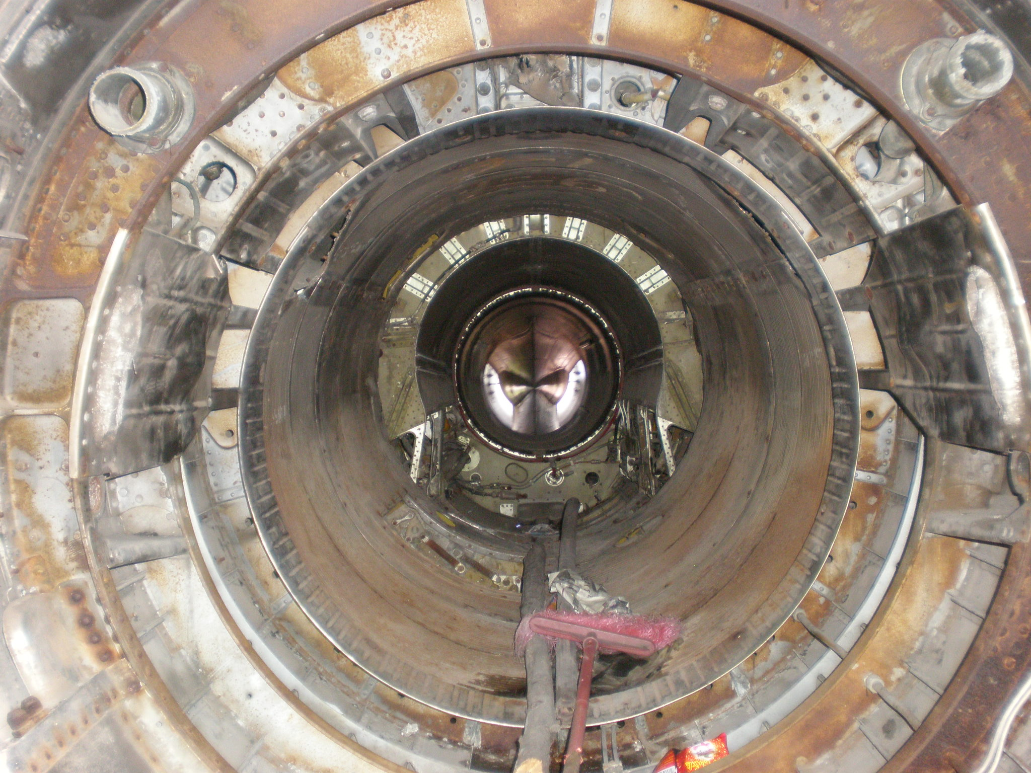 The engine of a Chengdu J-7 on display at the Minsk World military theme park in Shenzhen, China. The former Soviet aircraft carrier Minsk is the centerpiece of Minsk World.